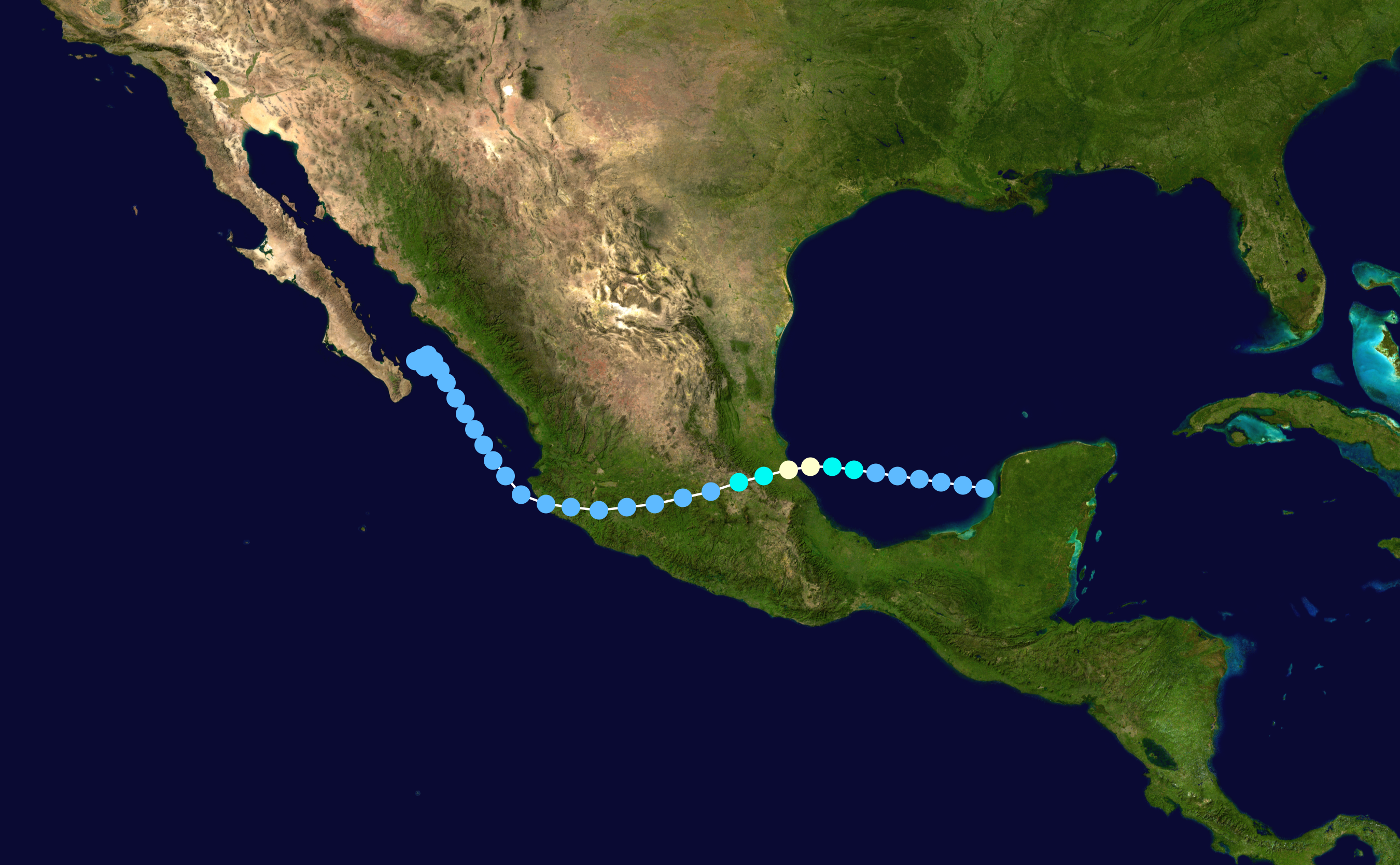 Hurricane Debby (1988) track. Uses the color scheme from the Saffir-Simpson Hurricane Scale.